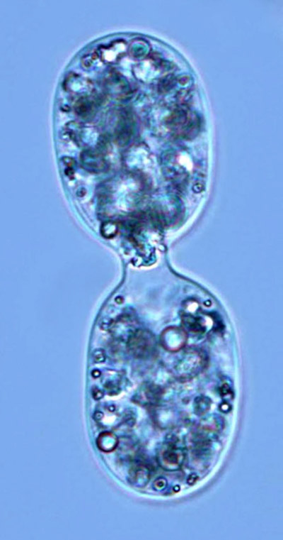 Dividing Achromatium cells, light micrograph.